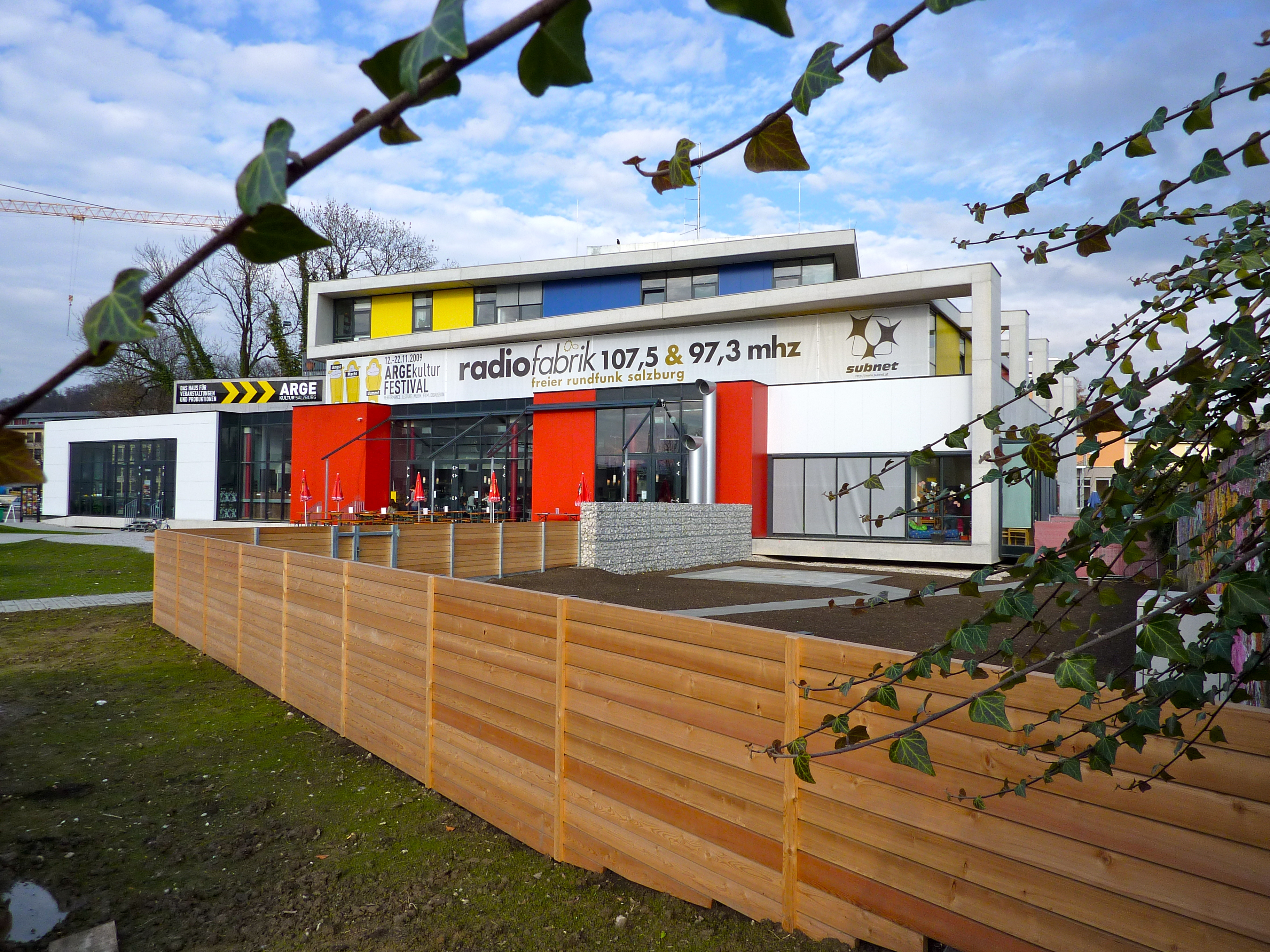 ARGEkultur Building, 1 Floor Radiofabrik 107,5, Salzburg/Nonntal - Austria